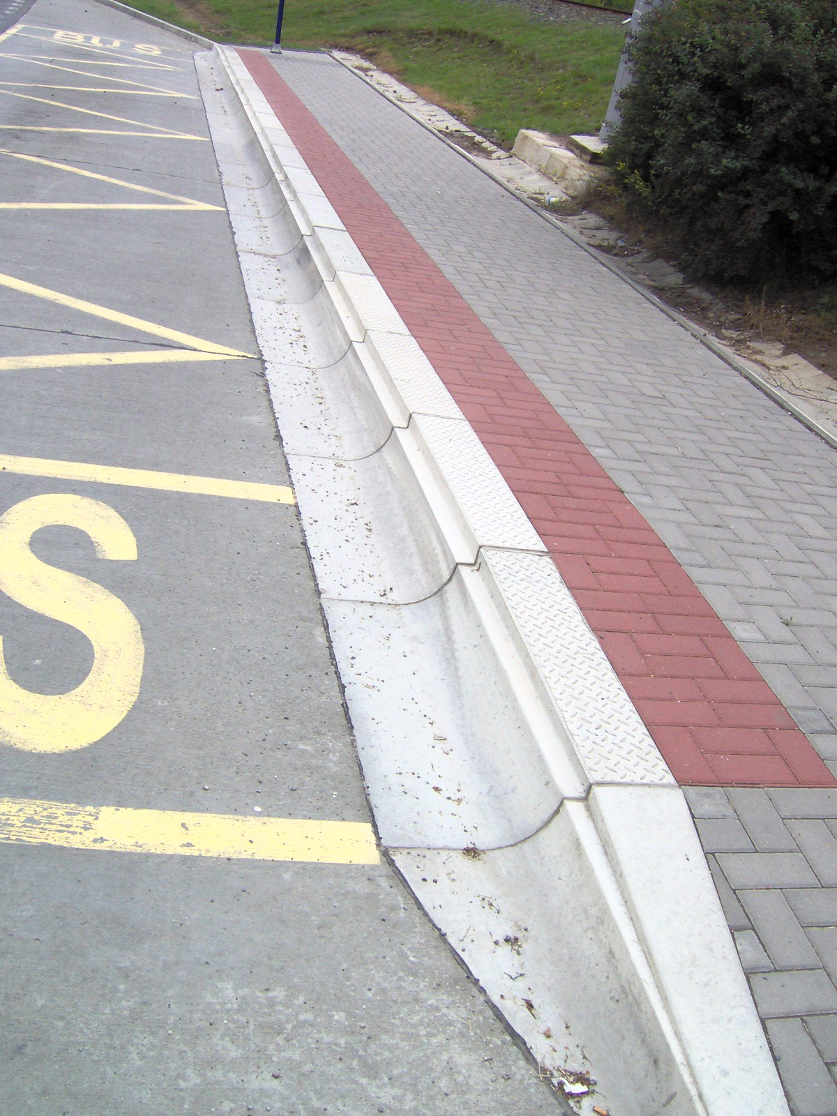 Bus stop Hraniční with Kassel-kerbs, Nová Ulice, Olomouc, Czech Republic